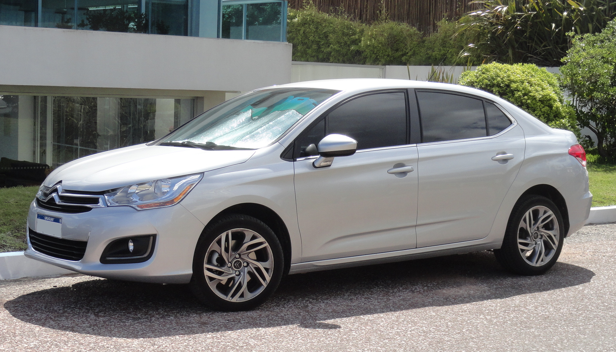 Citroën C4 Lounge photographed in Punta del Este (Uruguay)